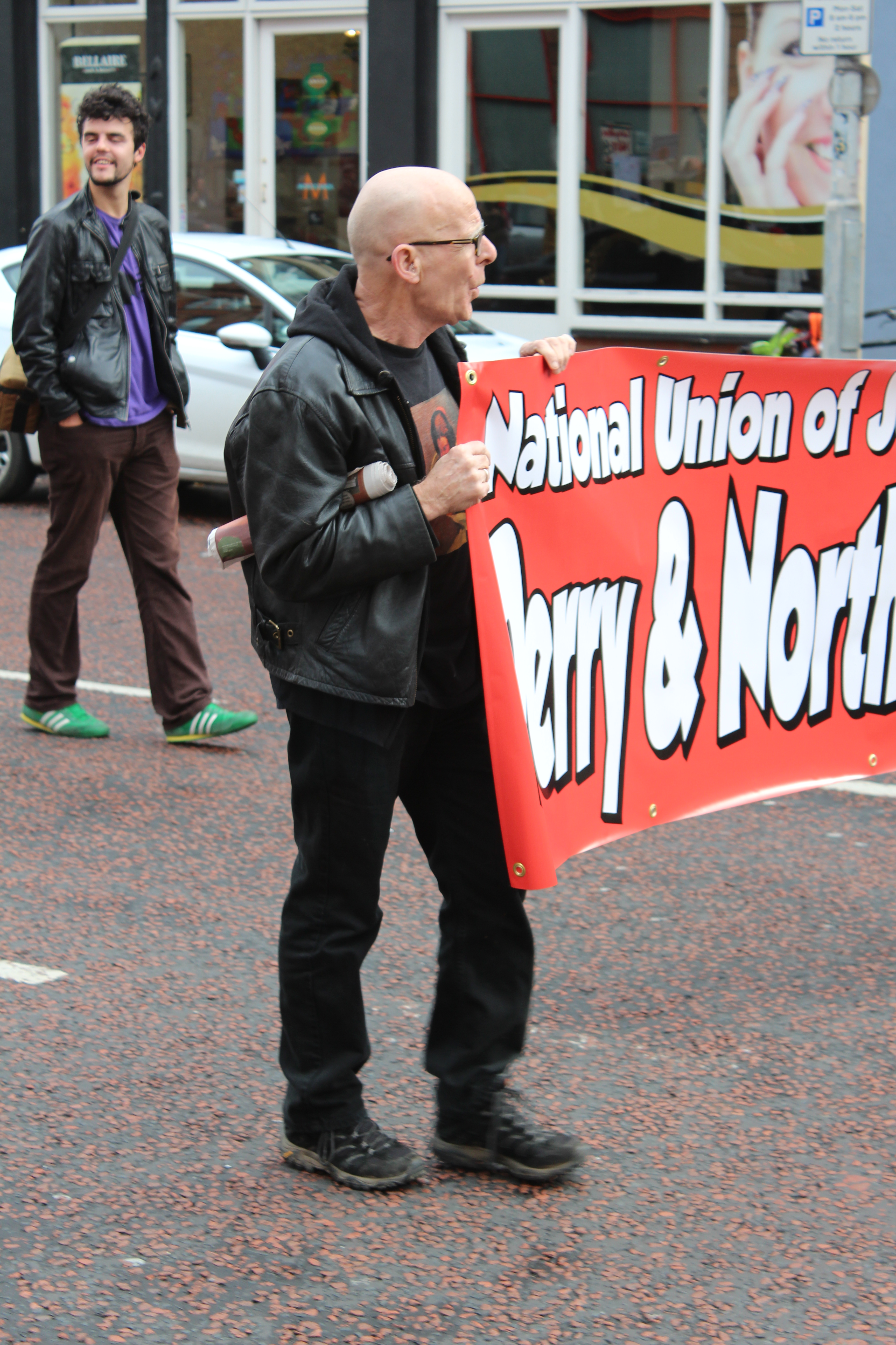 Eamonn McCann, Trade Unions Anti-Austerity march, Royal Avenue, Belfast, Northern Ireland, October 2012